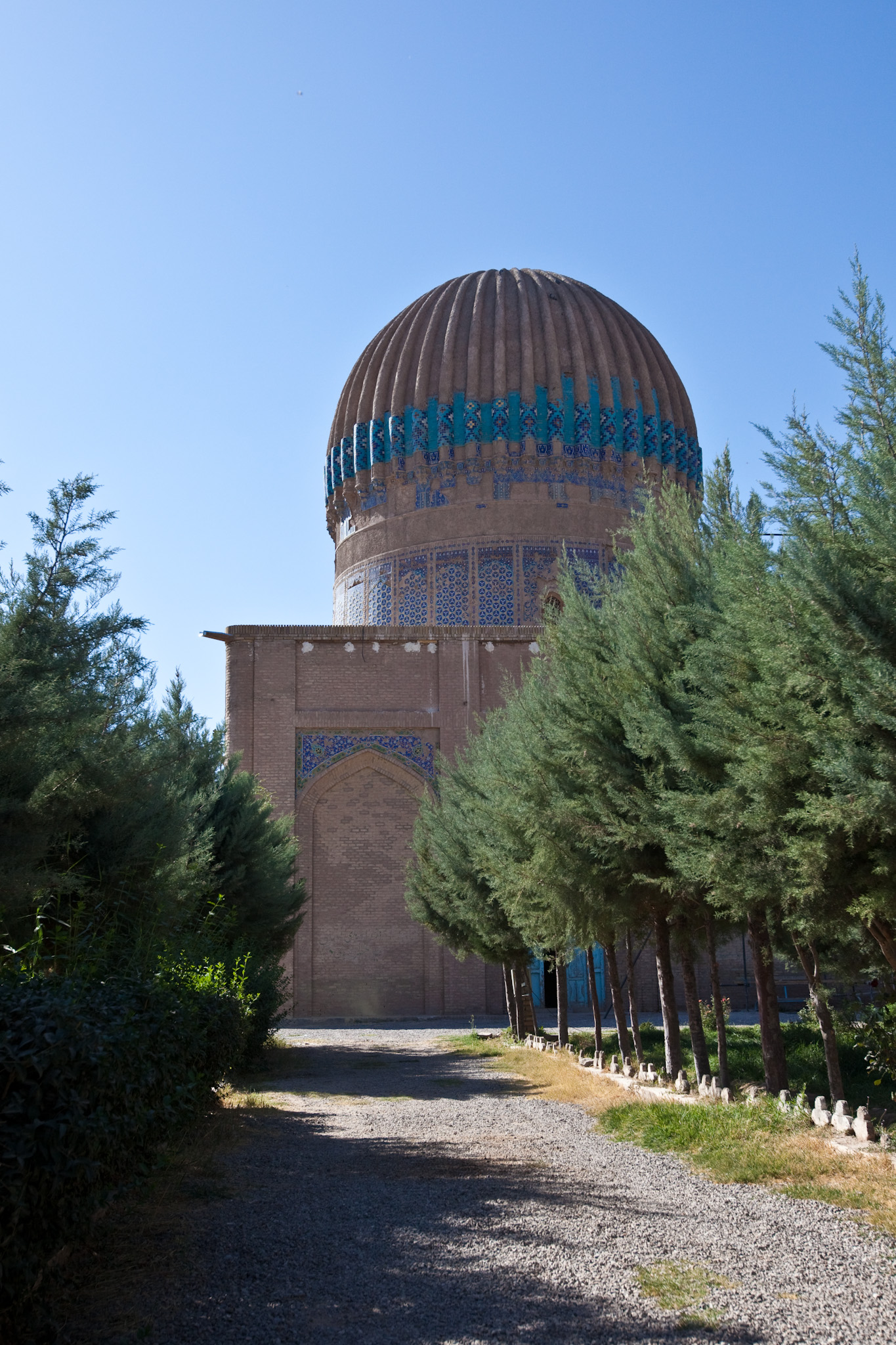 Musalla Complex and Minarets - Herat, Afghanistan